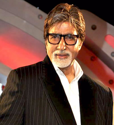 Amitabh Bachchan at the launch of Force One SUV